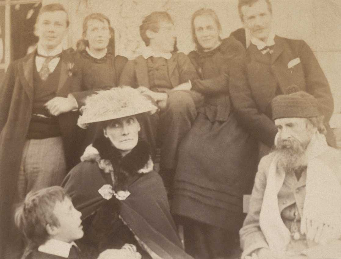 Leslie and Julia Stephen with their family, Wimbledon 1892 (Gerald Duckworth, Virginia, Thoby and Vanessa Stephen, George Duckworth: Back Row. Adrian, Julia, Leslie Stephen: Front Row (absent: Stella Duckworth, Laura Stephen)